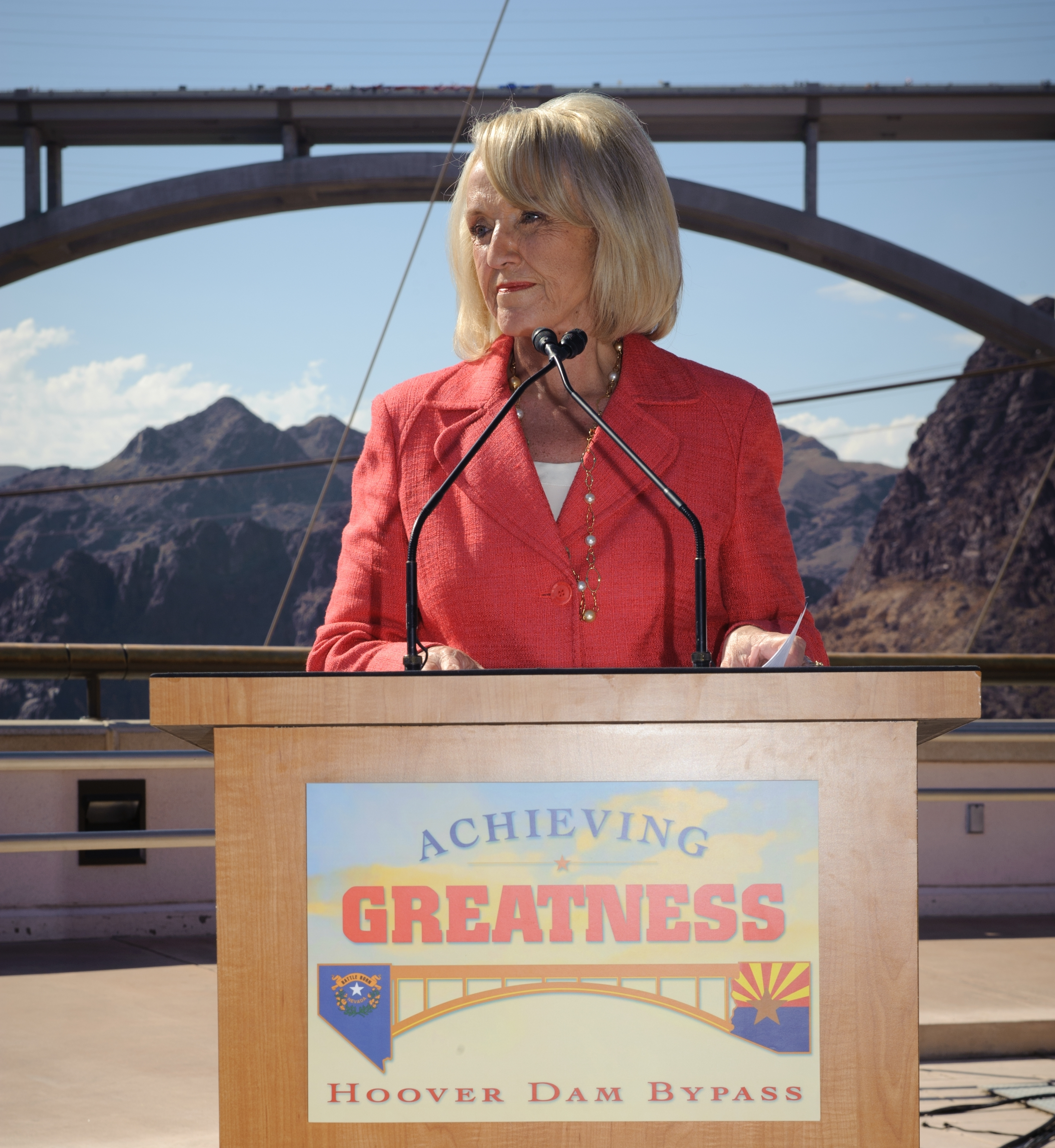 Arizona Governor Jan Brewer addressed the attendees at the Dedication of the Mike O’Callaghan-Pat Tillman Memorial Bridge.